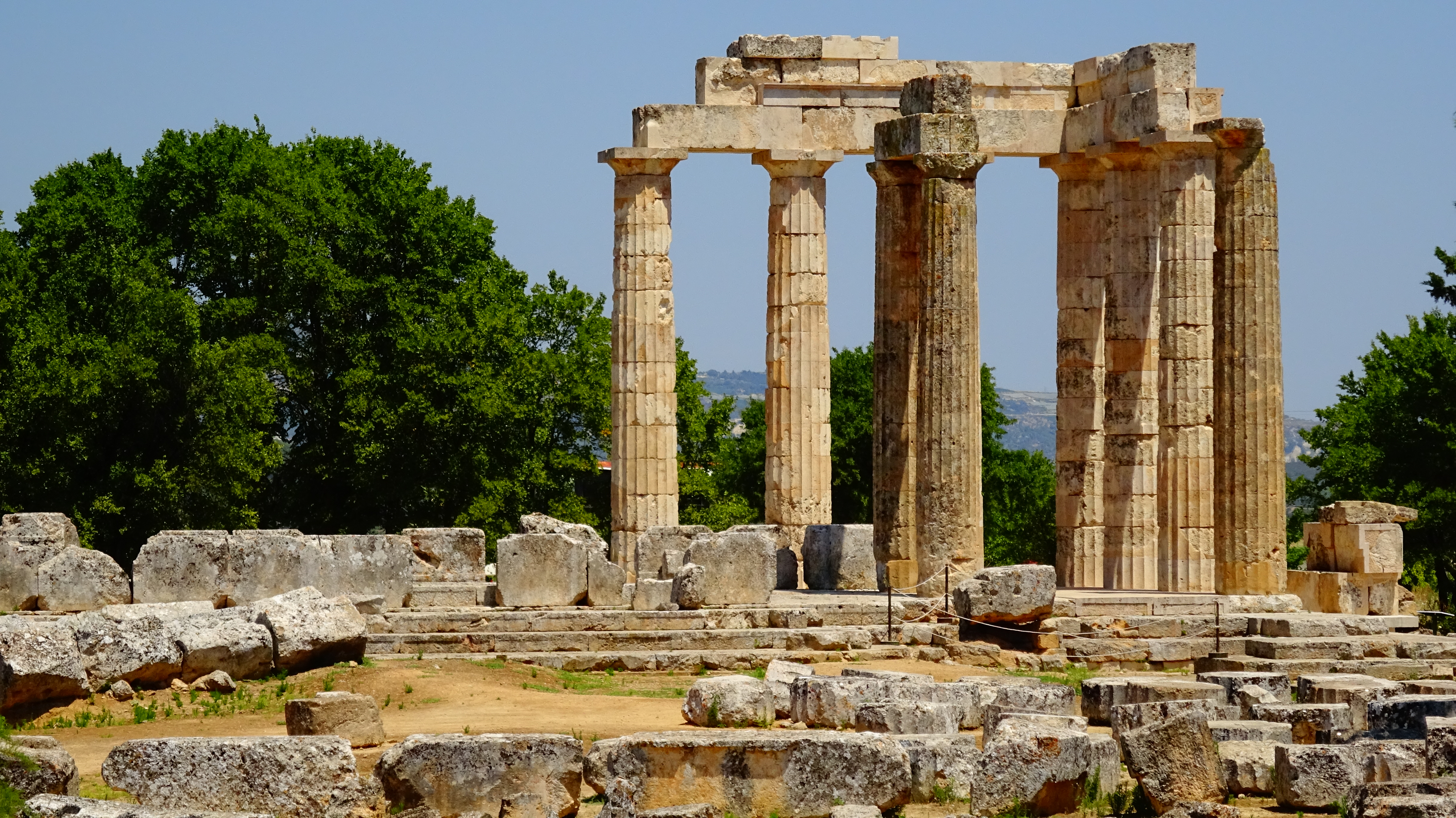 The Temple of Zeus in Nemea was constructed in the 4th century BCE.